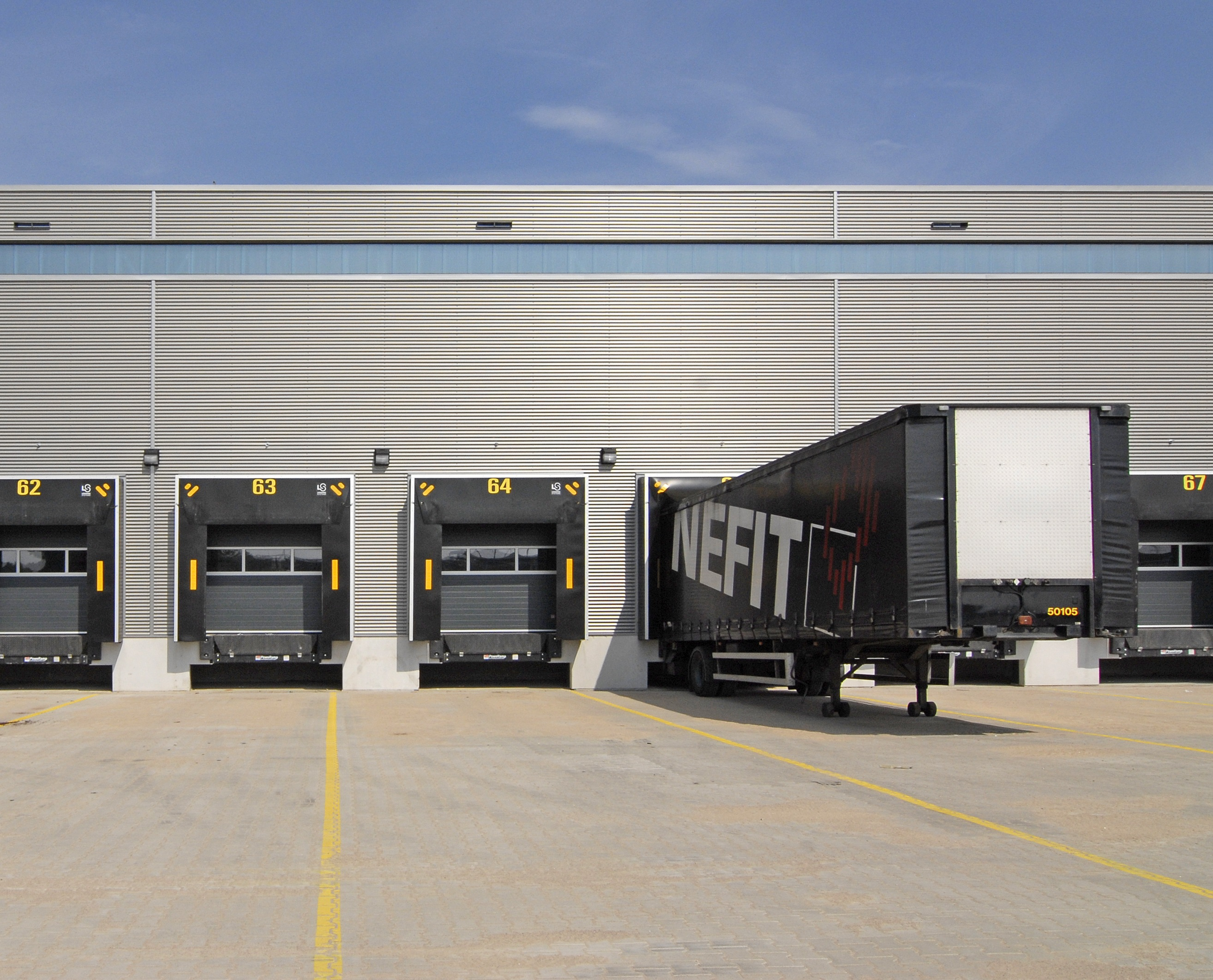 A typical loading yard containing multiple loading docks. Modern loading docks are often equipped with a dock leveller, dock shelter, sectional overhead door and traffic light.